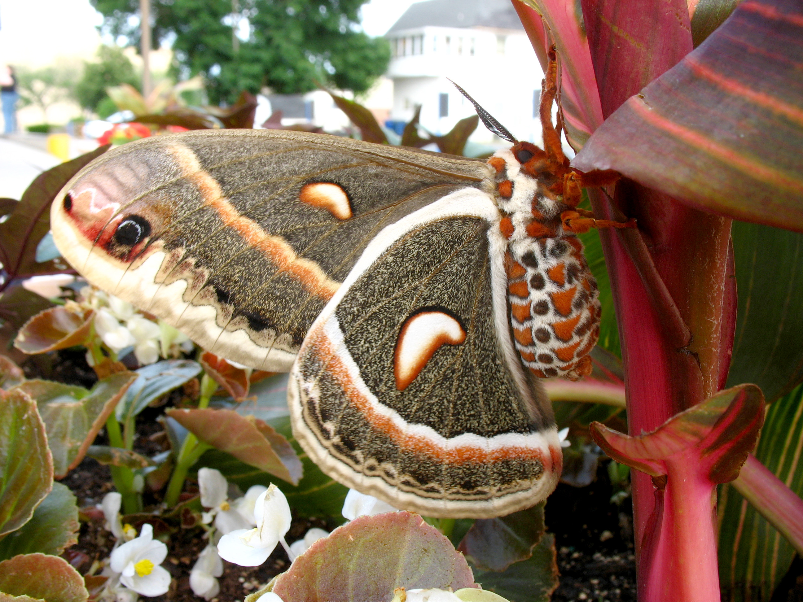 A cecropia moth. This is the biggest moth I have ever seen. Its wingspan was as big as the palm of my hand.